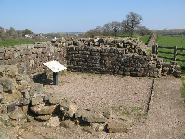 Turret 48b (Willowford West), near to Gilsland, Cumbria, Great Britain.